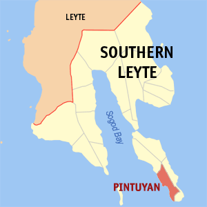 Map of Southern Leyte showing the location of Pintuyan